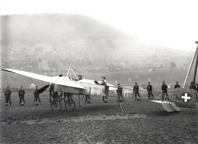 Oskar Bider and his mechanics in Liestal in 1913